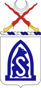 027th Infantry Regiment Coat of Arms